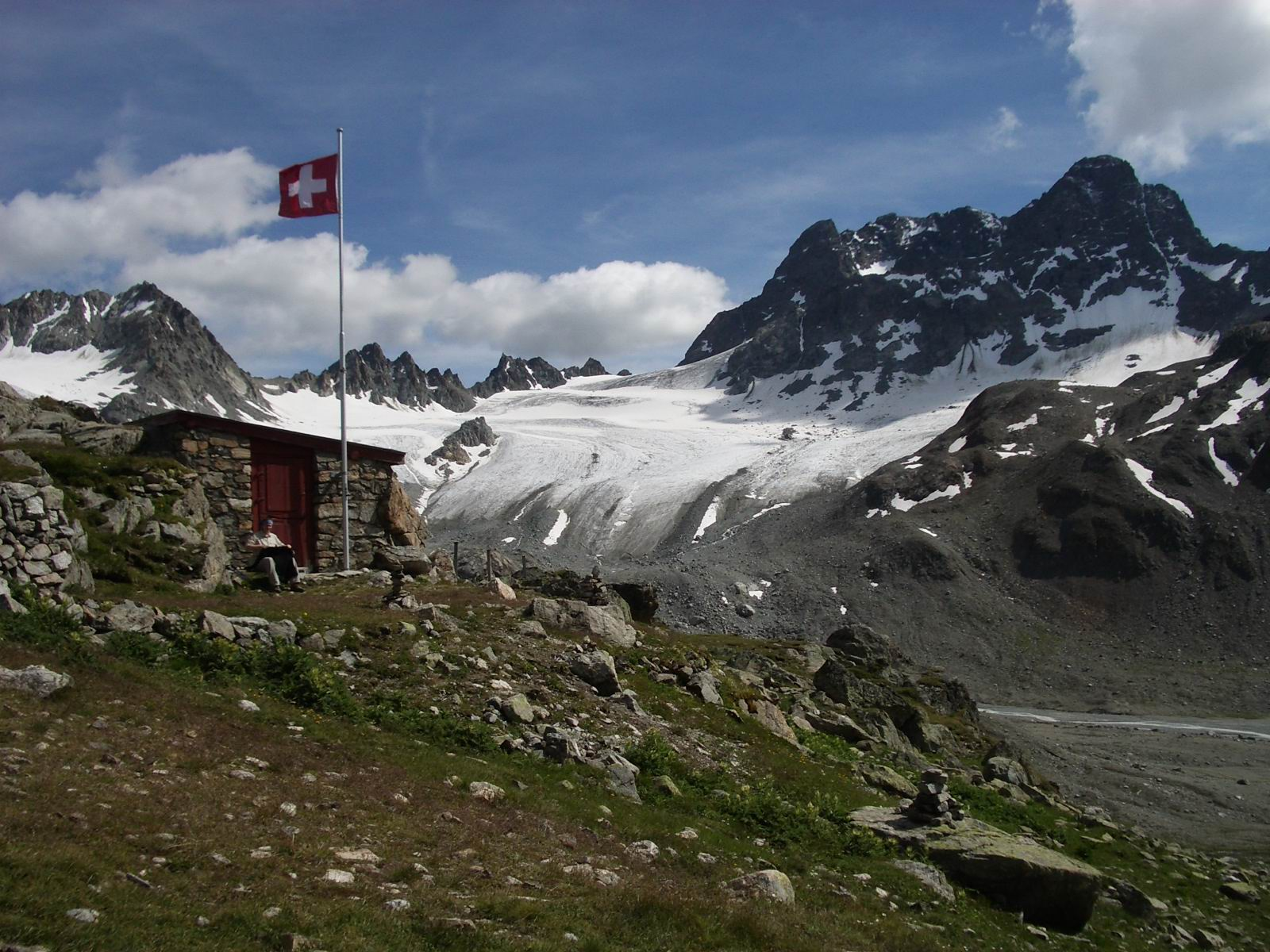 Kesch alpine hut of the Swiss Alpine Club (SAC), at 2625 m, Grisons, Switzerland. Looking south to Vadret da Porchabella and Piz Kesch